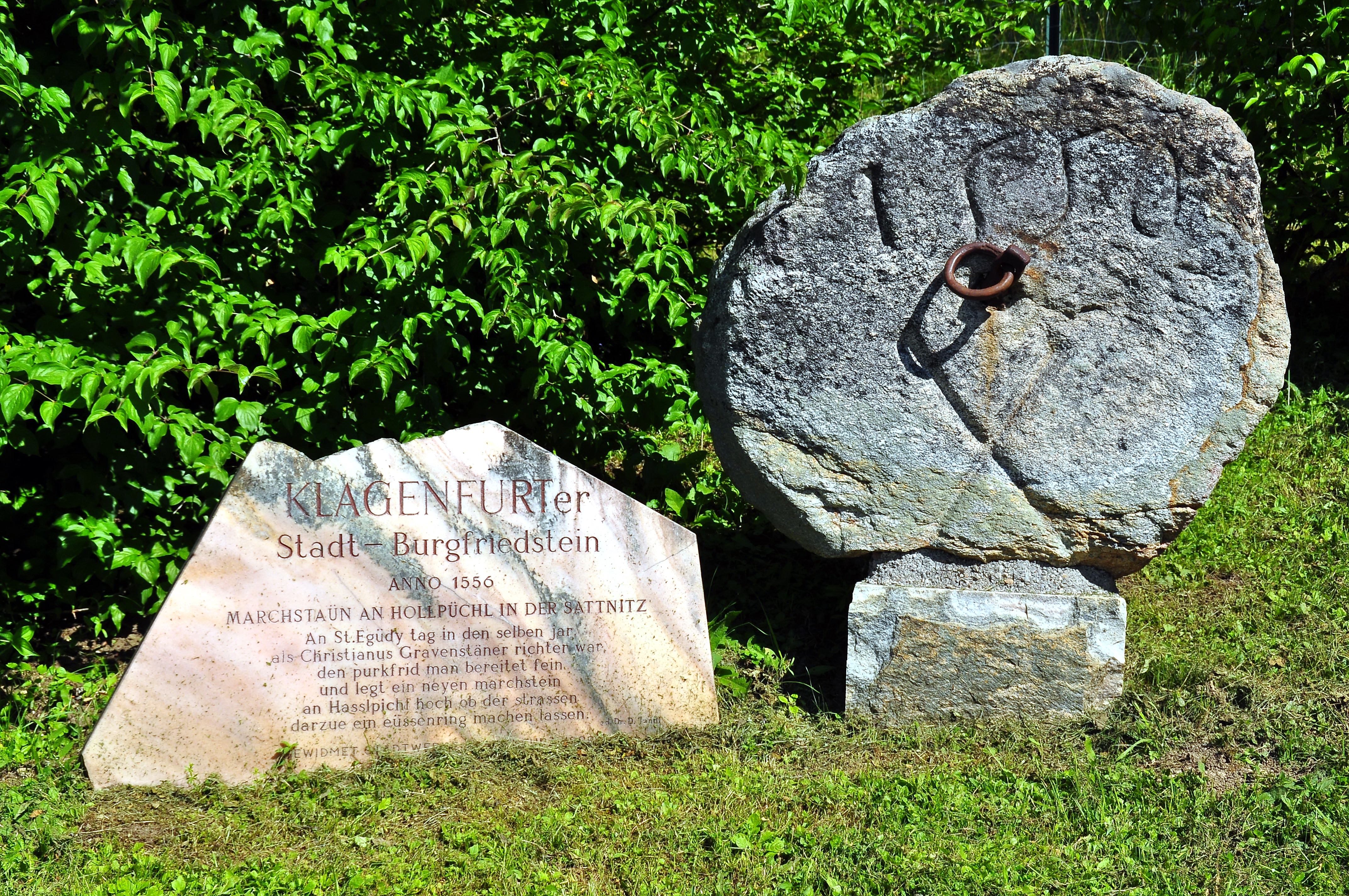 Exposed Burgfried-stone with iron ring, marking the southern city limit in the year 1556, situated on the Quellenstrasse in the 13th district “Viktring” of the Carinthian capital Klagenfurt, Carinthia, Austria